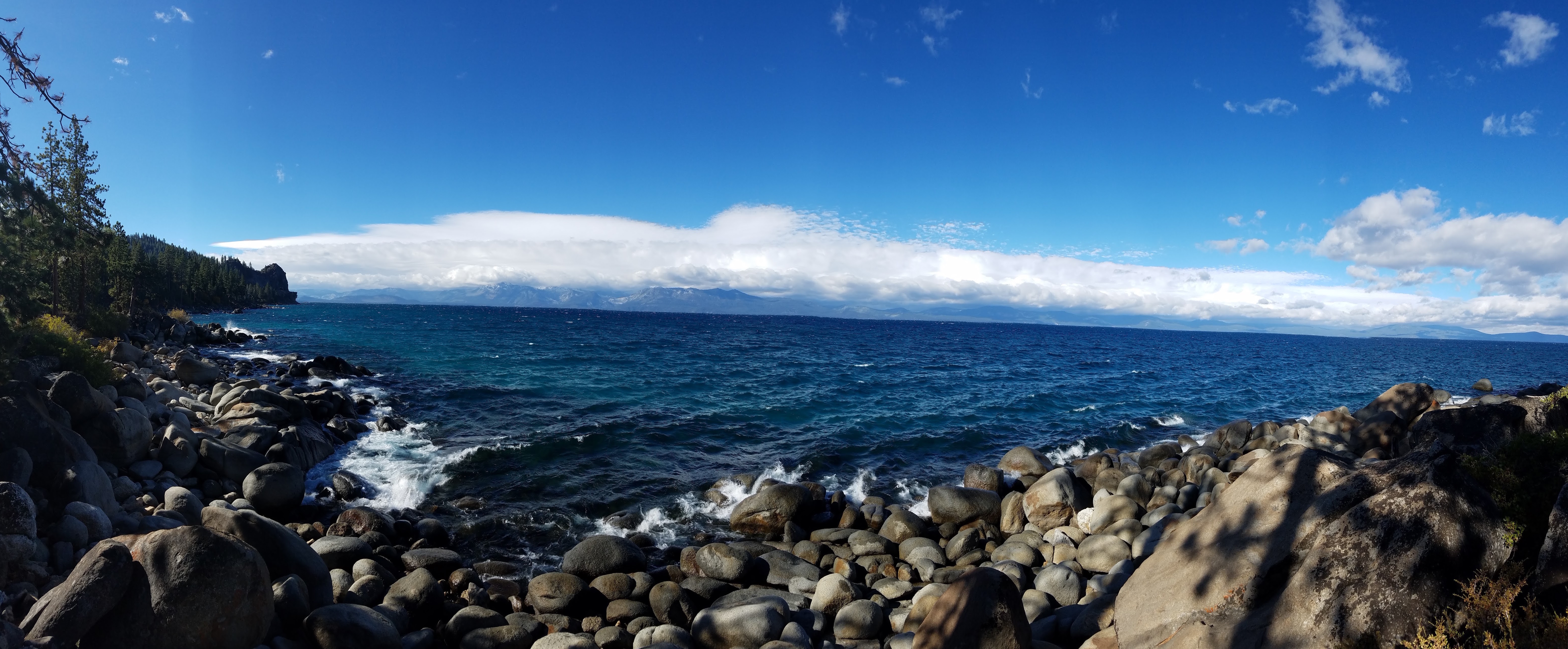 Looking towards the west shore